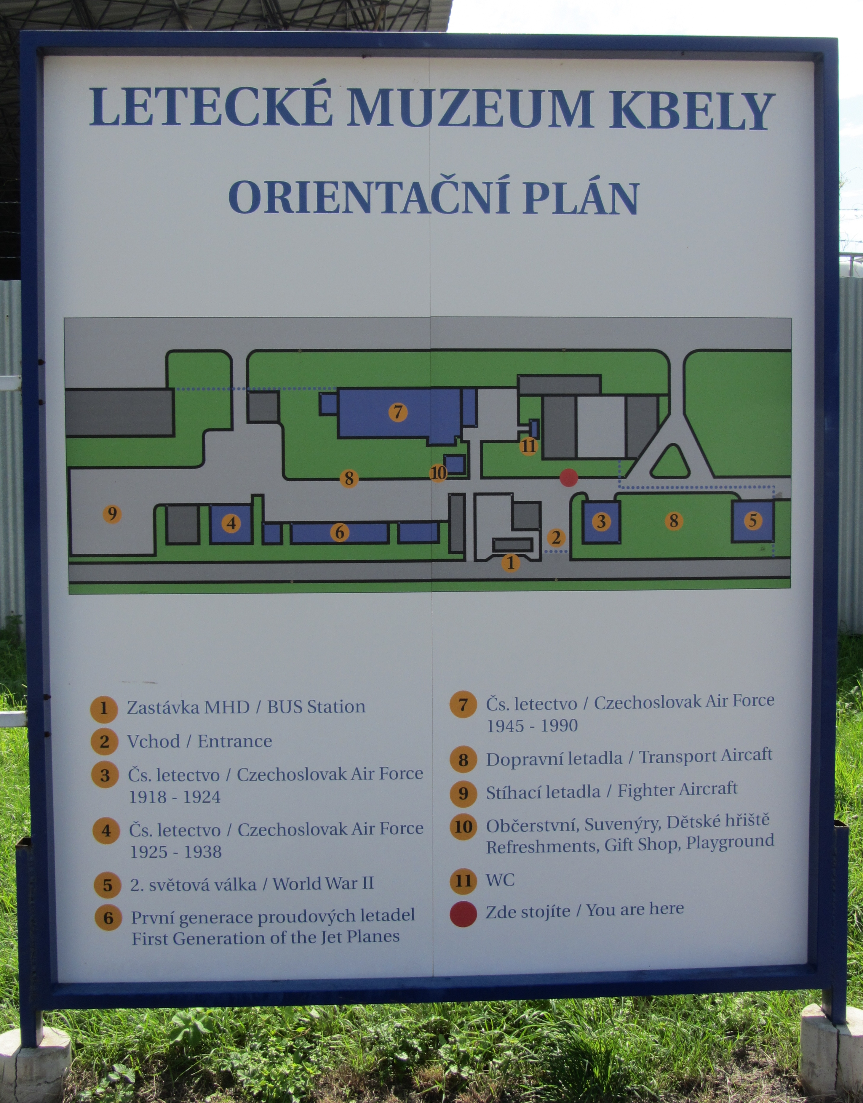 Kbely Aviation Museum Prague orientation plan 2011